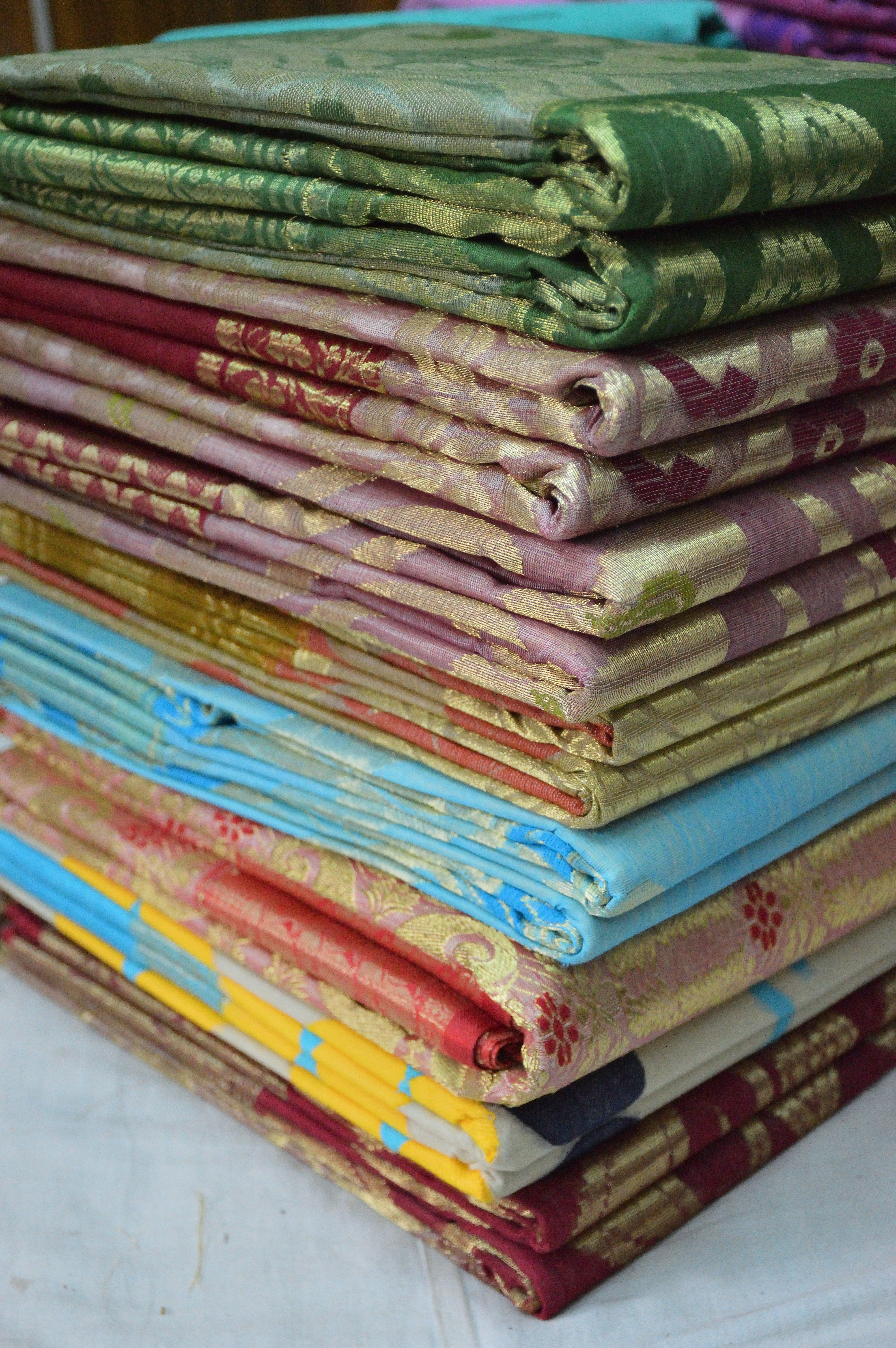 This videograph was teken at the 2 Natun Phulia or Fulia, Nadia.